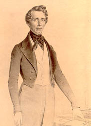 James Pinckney Henderson, first Governor of the State of Texas.